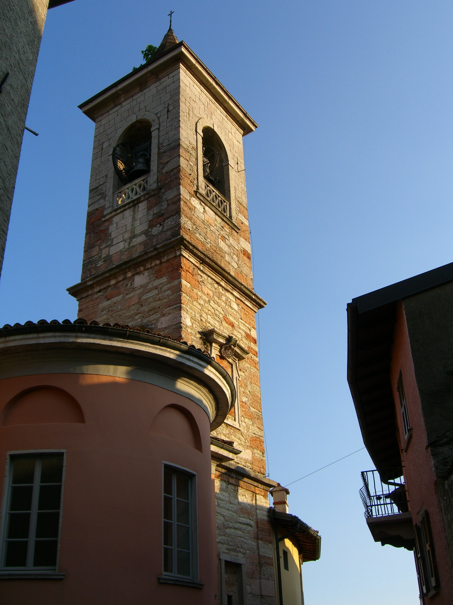 Some impressions from the village Arzo in Ticino